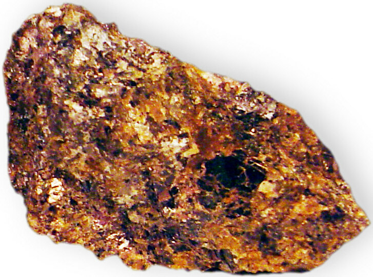 These mineral images are free to use how you wish.